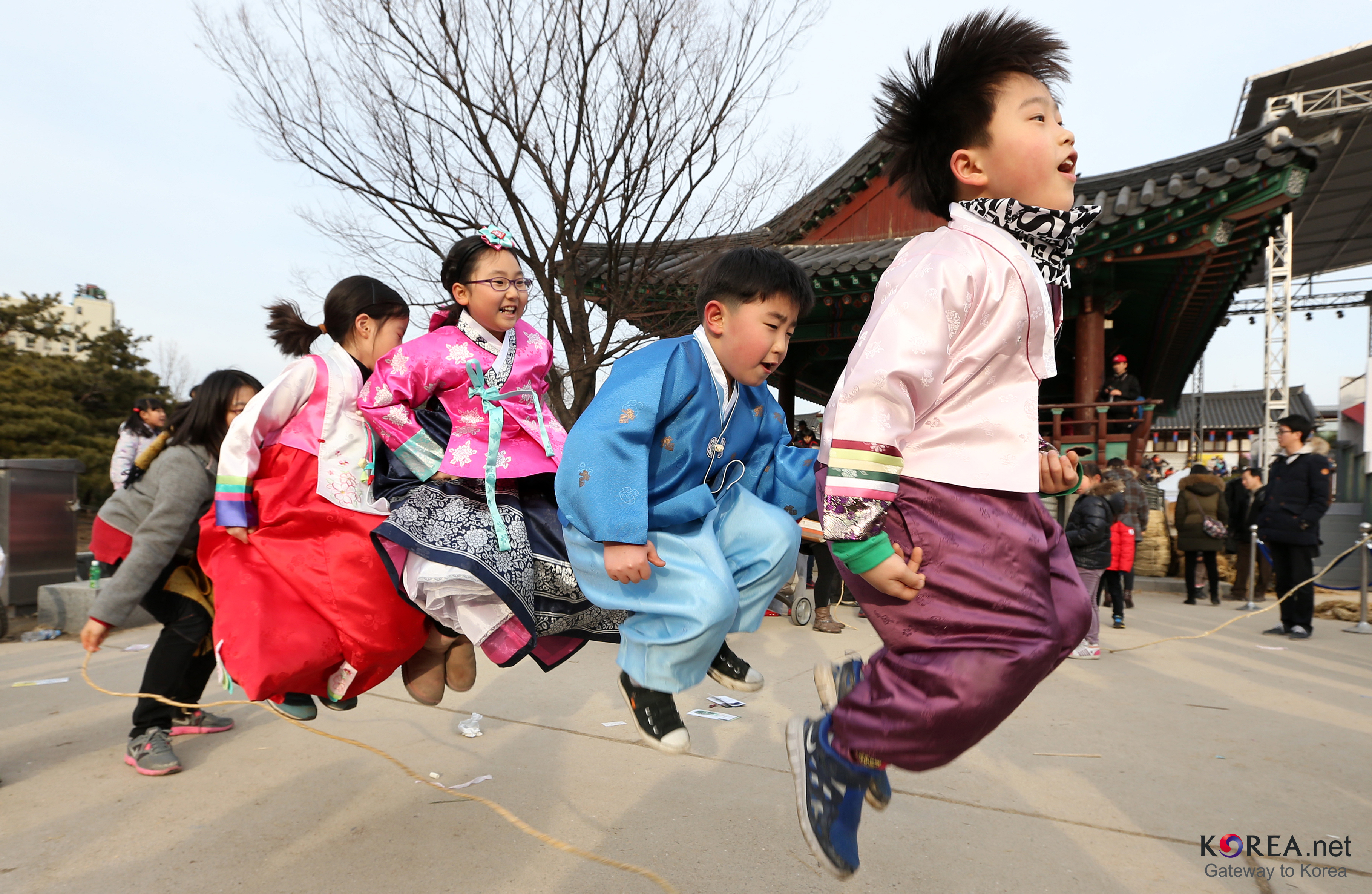 Jeongwol Daeboreum Sketch Jeongwol Daeboreum, the first full moon of the lunar calendar, is one of the biggest traditional holidays celebrated across Korea. Namsangol Hanok Village, Seoul 2013.02.24. Ministry of Culture, Sports and Tourism Korean Culture and Information Service Jeon Han 정월대보름 스케치 남산골한옥마을 문화체육관광부 해외문화홍보원 코리아넷 전한